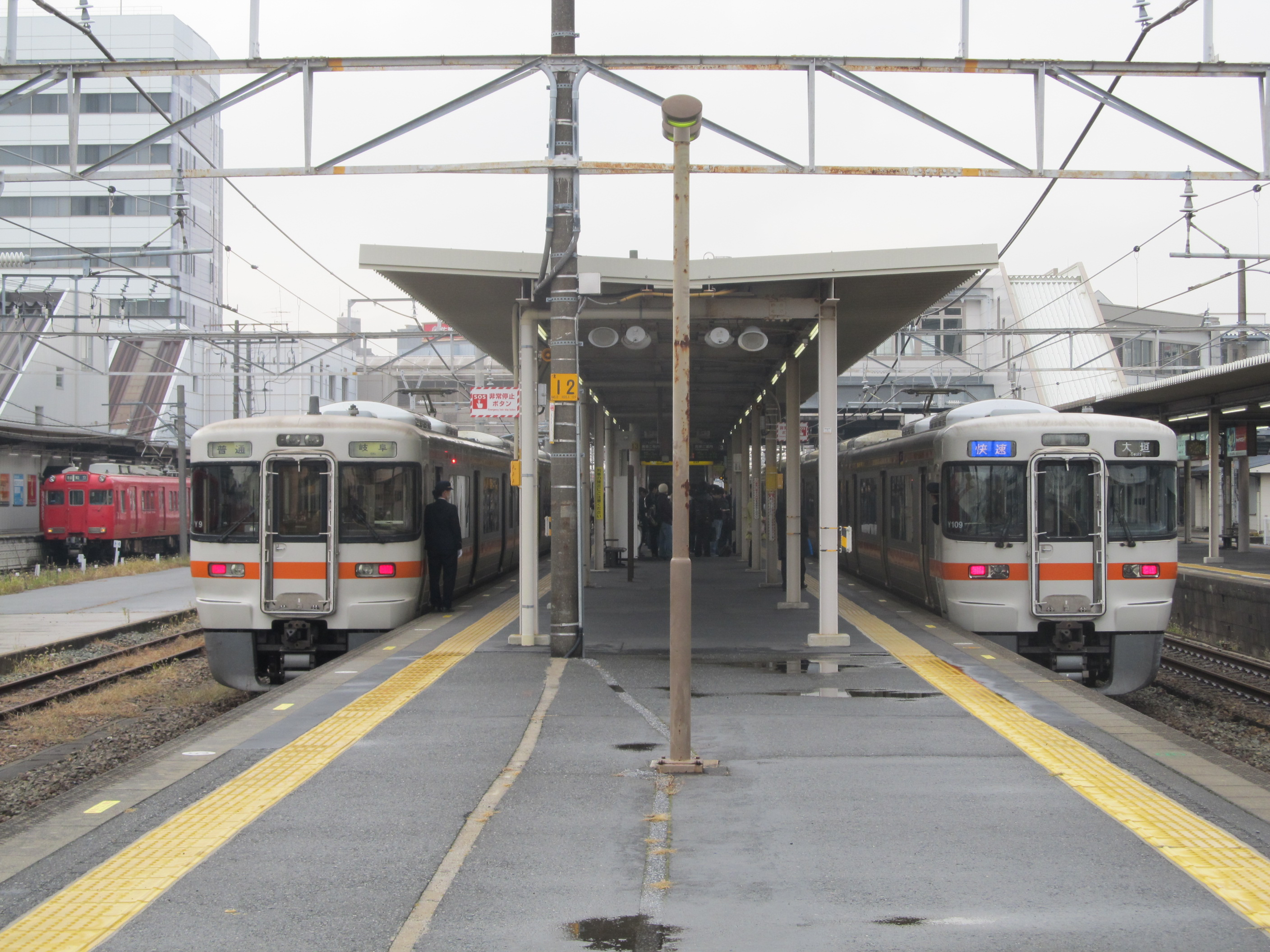 Central Japan Railway Tōkaidō Main Line Kariya Station Platform